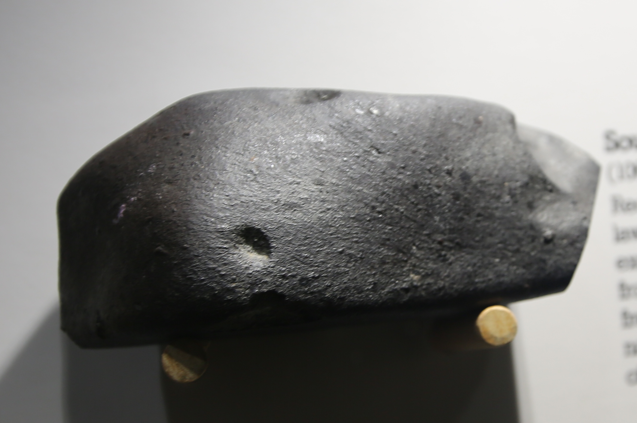 Photo of the 1066g South Corston fragment of the Strathmore meteorite